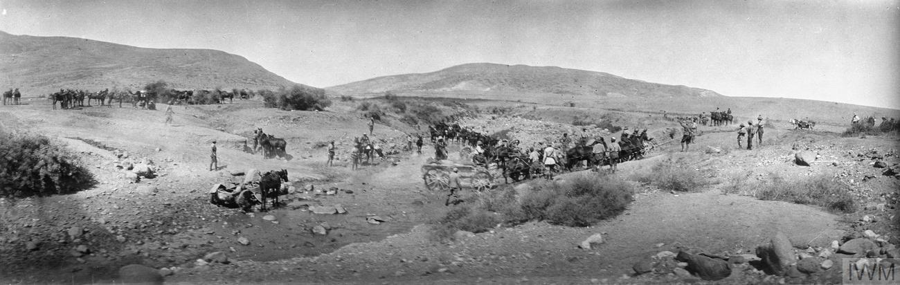 Battles of Megiddo. 4th Cavalry Division. Transport crossing the Wadi-el-Bireh near Jisr Mejamie. Some fourteen German lorries trying to escape were bogged and abandoned here (one can be seen). It took two days to get 30 of our lorries across.